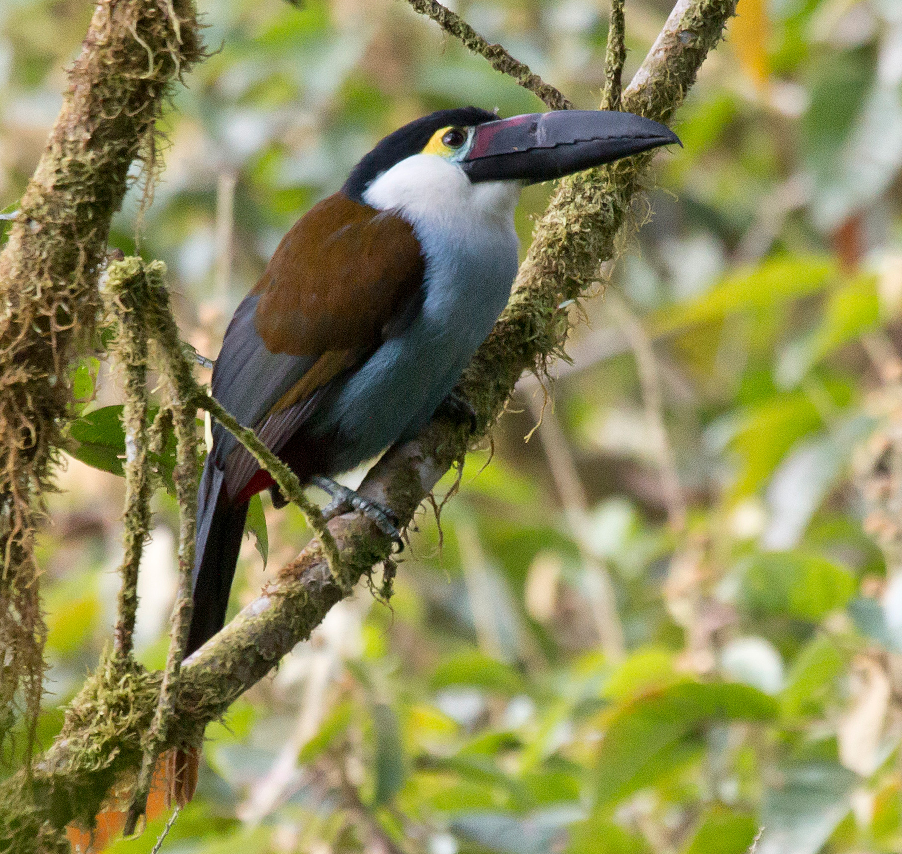 Black-billed Mountain-Toucan found along Jumandy Trail, Ecuador